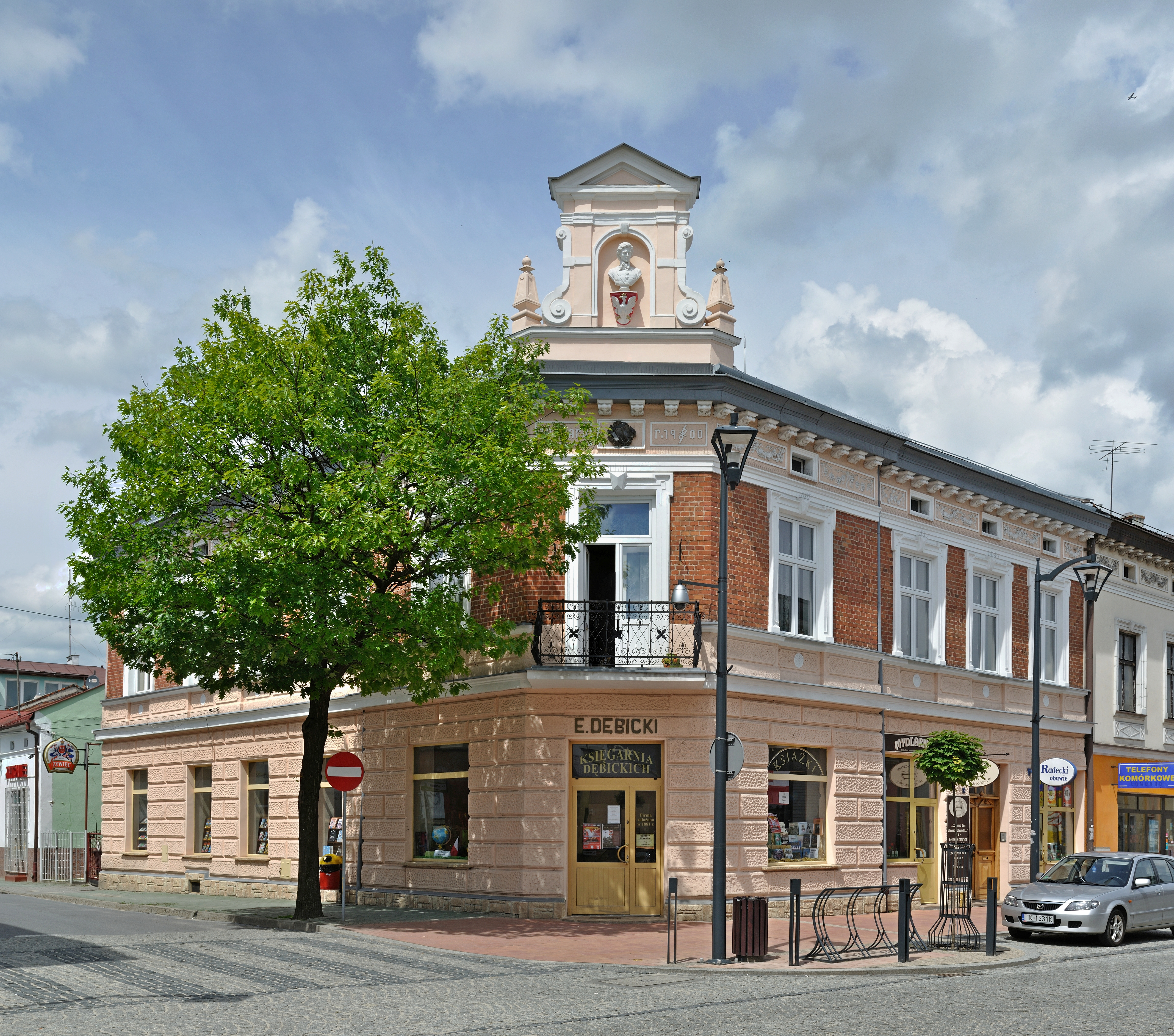 The house of family Dębicki in Mielec